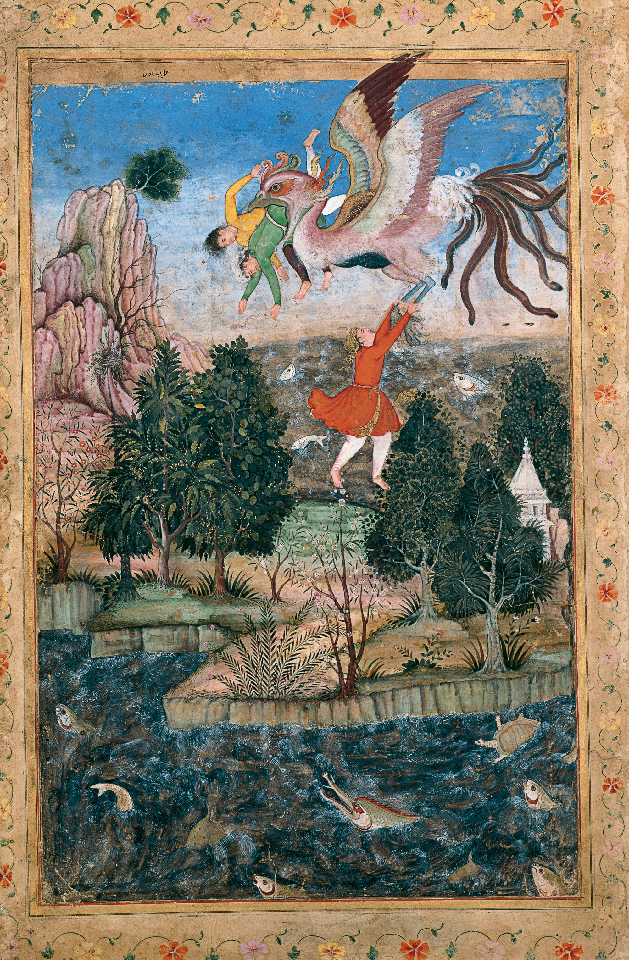 Basawan. The Flight of the Simurgh. ca. 1590, Sadruddin Aga Khan Collection